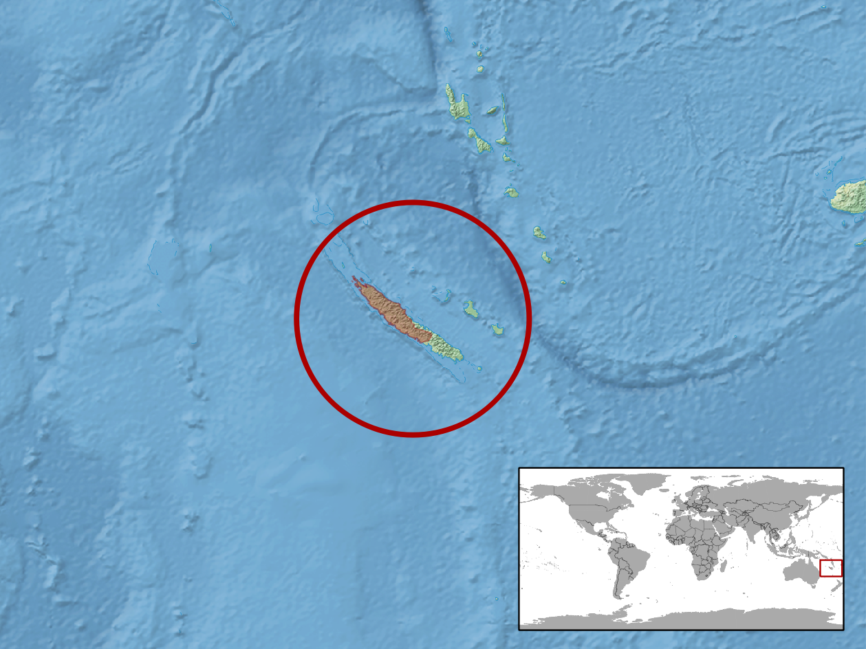 geographic distribution of Lioscincus novaecaledoniae